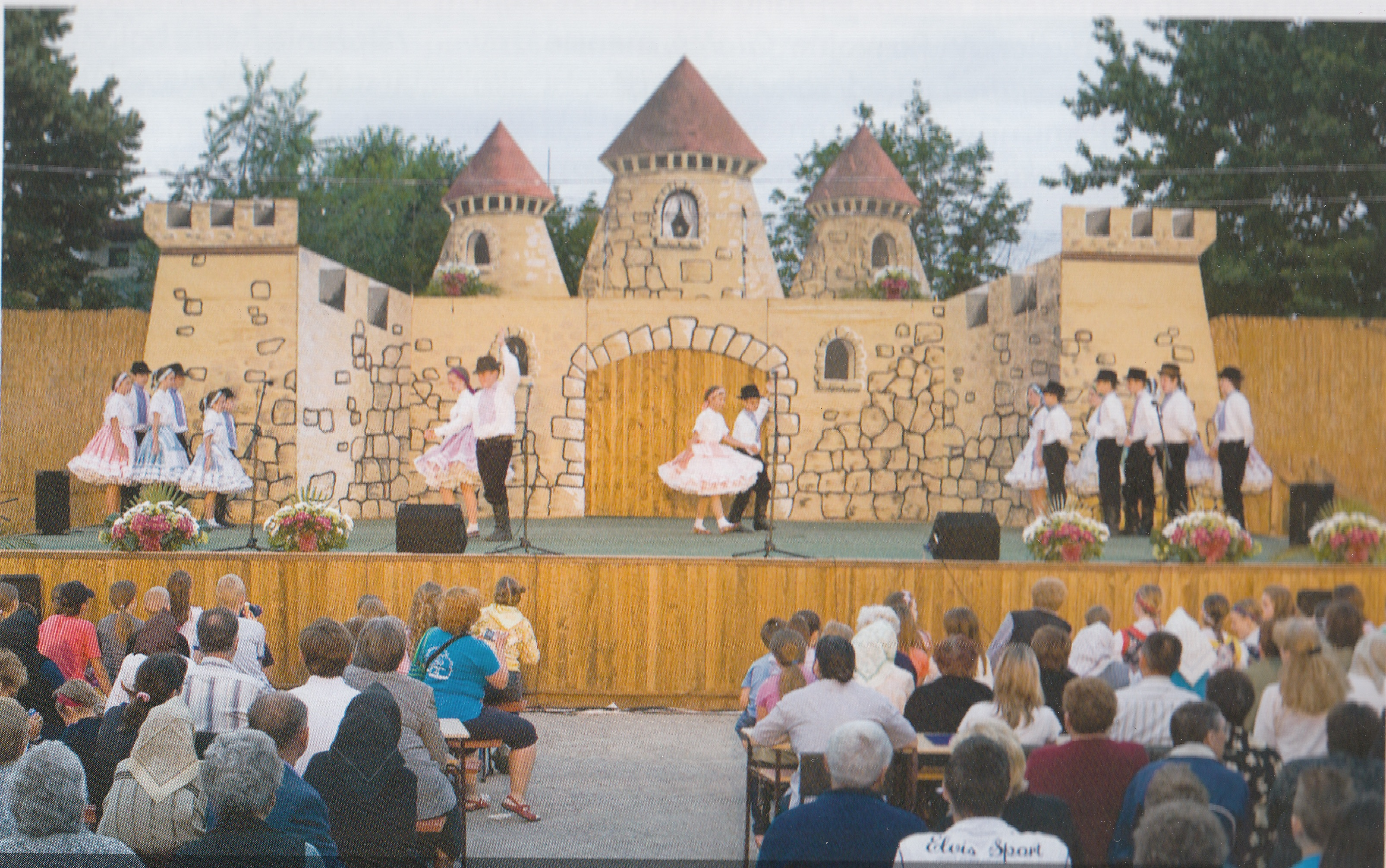 A photograph of participants of festival "Zlatna brana" in Kisač (Vojvodina, Serbia) in 2011. Taken from the monograph Slováci v Srbsku z aspektu kultúry. Srpski (latinica): Fotografija učesnika festivala "Zlatna brana" u Kisaču (2011). Preuzeto iz monografije Slováci v Srbsku z aspektu kultúry.